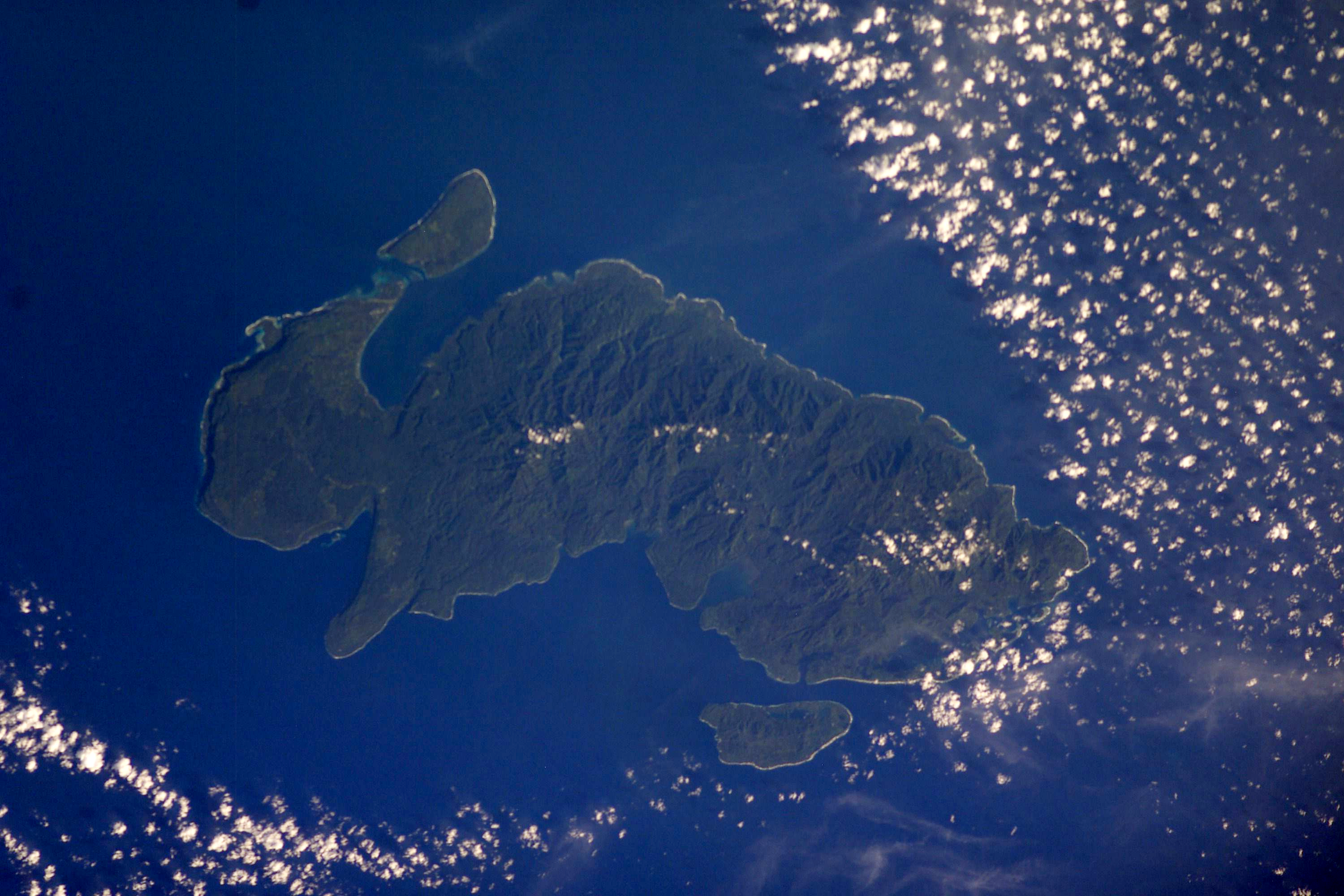 Solomon Islands, Santa Cruz Islands, Ndeni in the Pacific Ocean